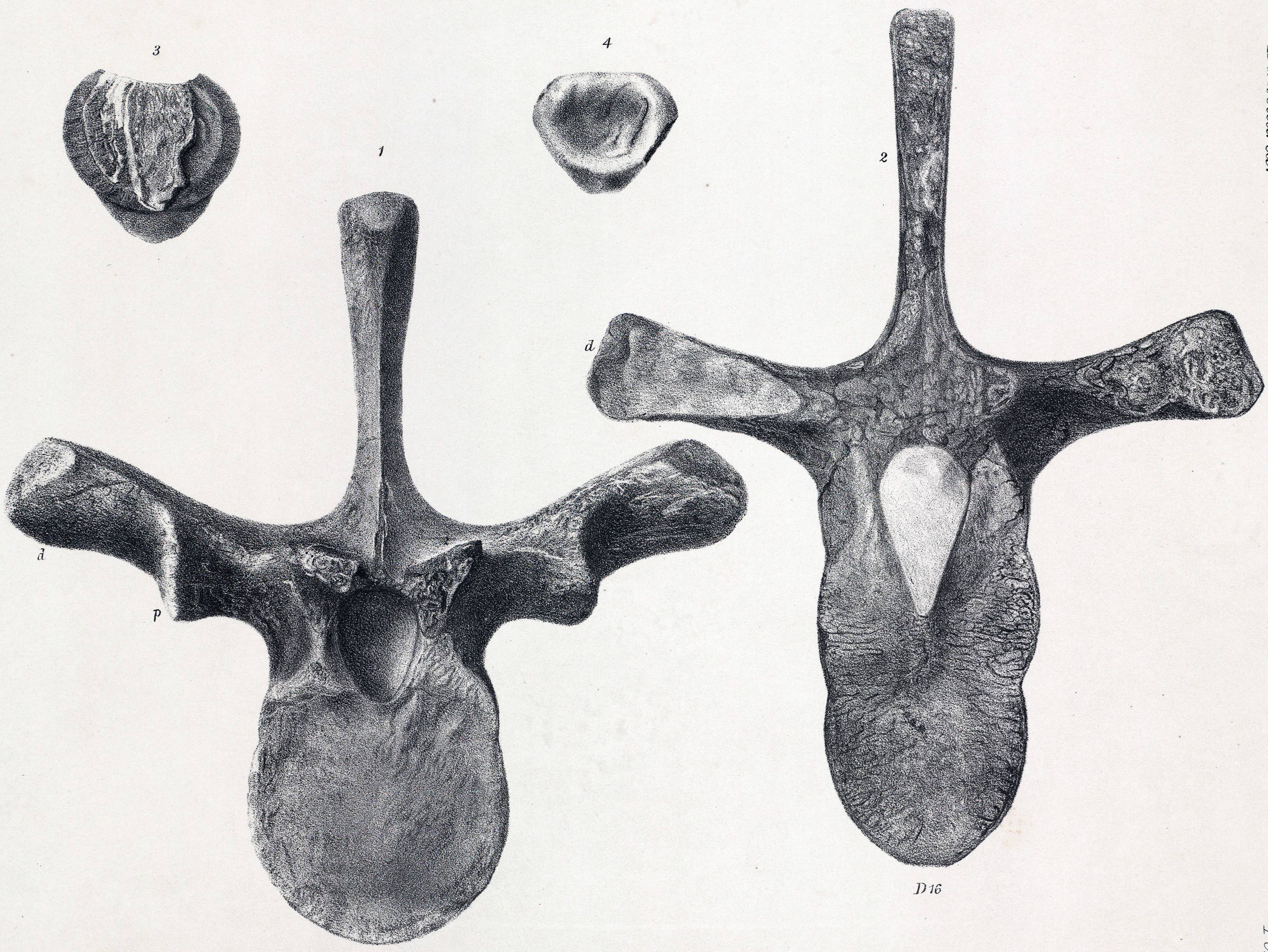 Scelidosaurus Harrisonii. Fig. 1. Front view of eleventh dorsal vertebra. Fig. 2. Back view of section of the sixteenth dorsal vertebra. Fig. 3. Portion of a dermal bone. Fig. 4. Articular surface of a dermo-neural bone.